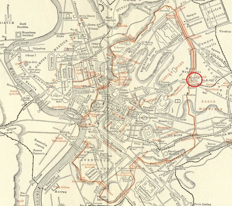 Map of Rome, made by S.B. Platner for his book "The Topography and Monuments of Ancient Rome" published 1911. Cropped to show central Rome